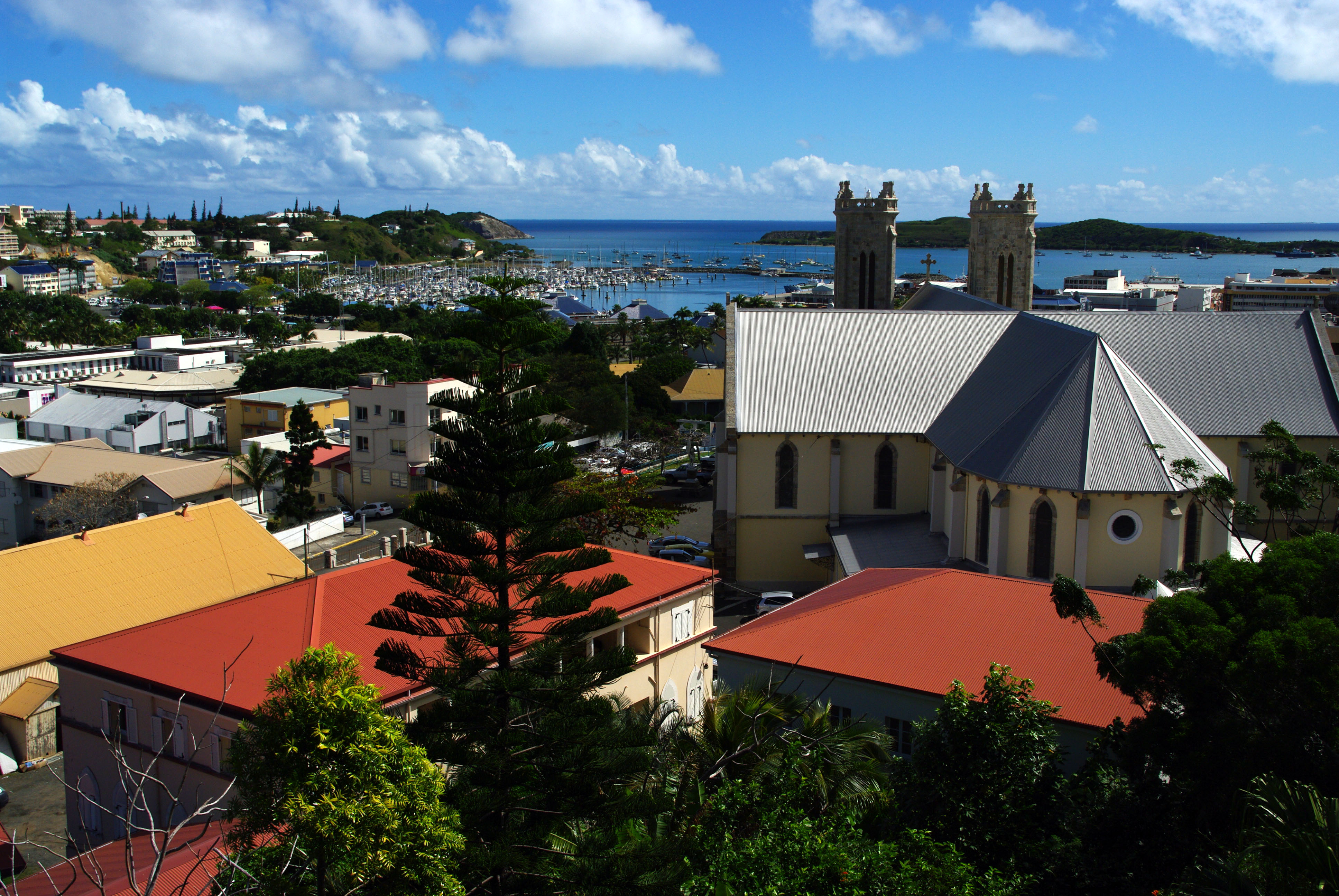 View over Noumea, New Caledonia from the youth hostel